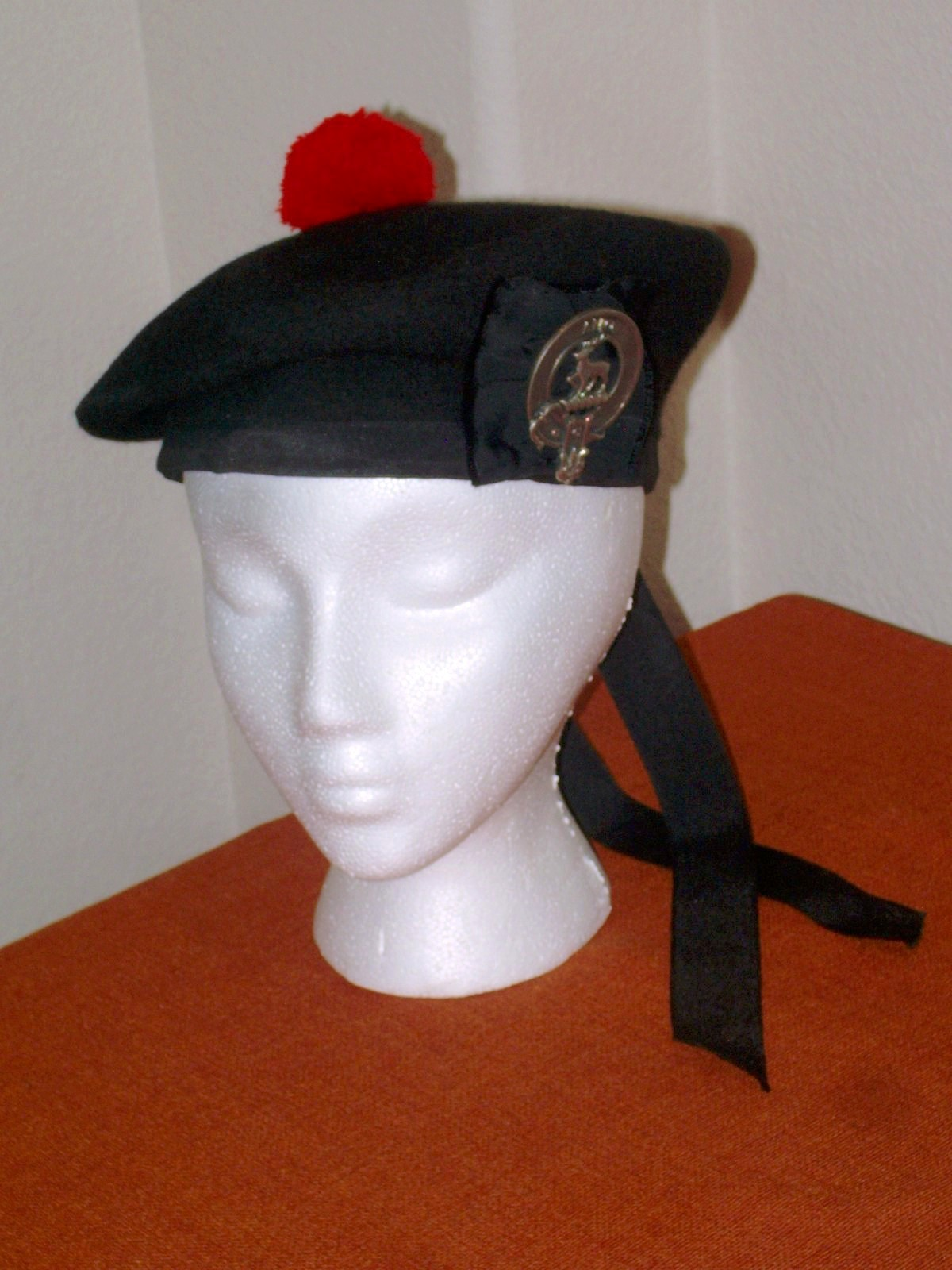 A Balmoral, a type of cap (bonnet in Scottish English) that is often a part of formal and casual civilian Highland dress as well as Scottish regiment uniform. This contemporary version is black wool, with black grosgrain headband, cockade and ribbons, a red yarn toorie, and a clan crest badge on the cockade.